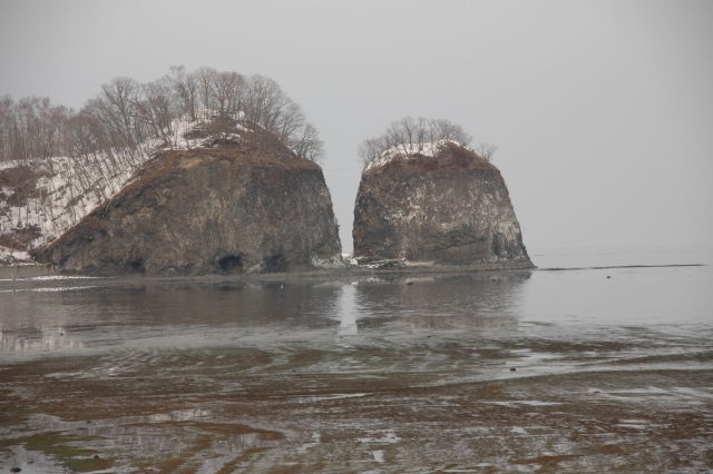 Futatsuiwa, Abashiri, Hokkaido, Japan on March, 2006. 二ツ岩 (北海道網走市) 2006年3月撮影 Photographer ほくなん, this work is in PD